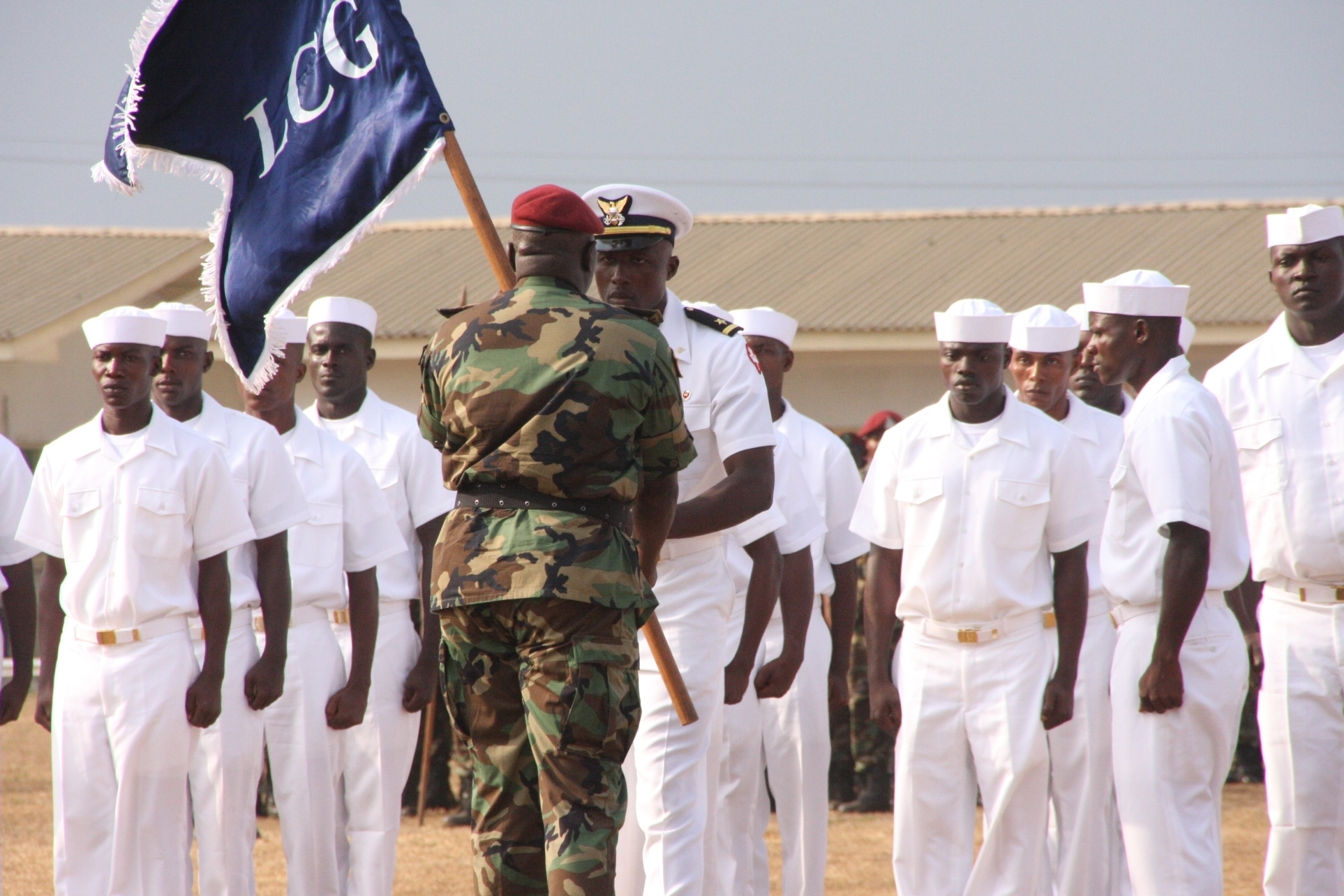 Review of Liberian Coast Guard by the Chief of Staff of the Armed Forces of Liberia, Major General Suraj Abdurrahman of the Nigerian Army, on Armed Forces Day, 2010.